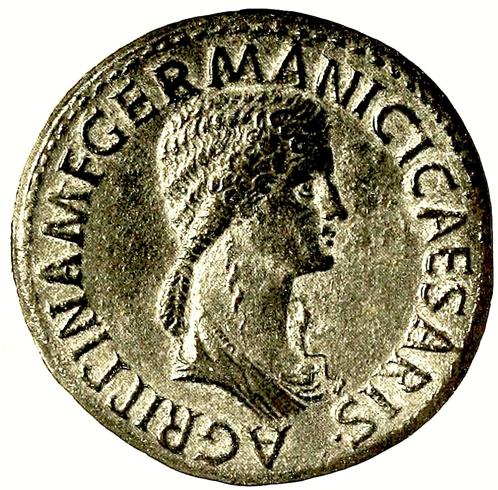 bronze sestertius with the head of Agrippina the Elder, daughter of Agrippa and Julia, the daughter of Augustus